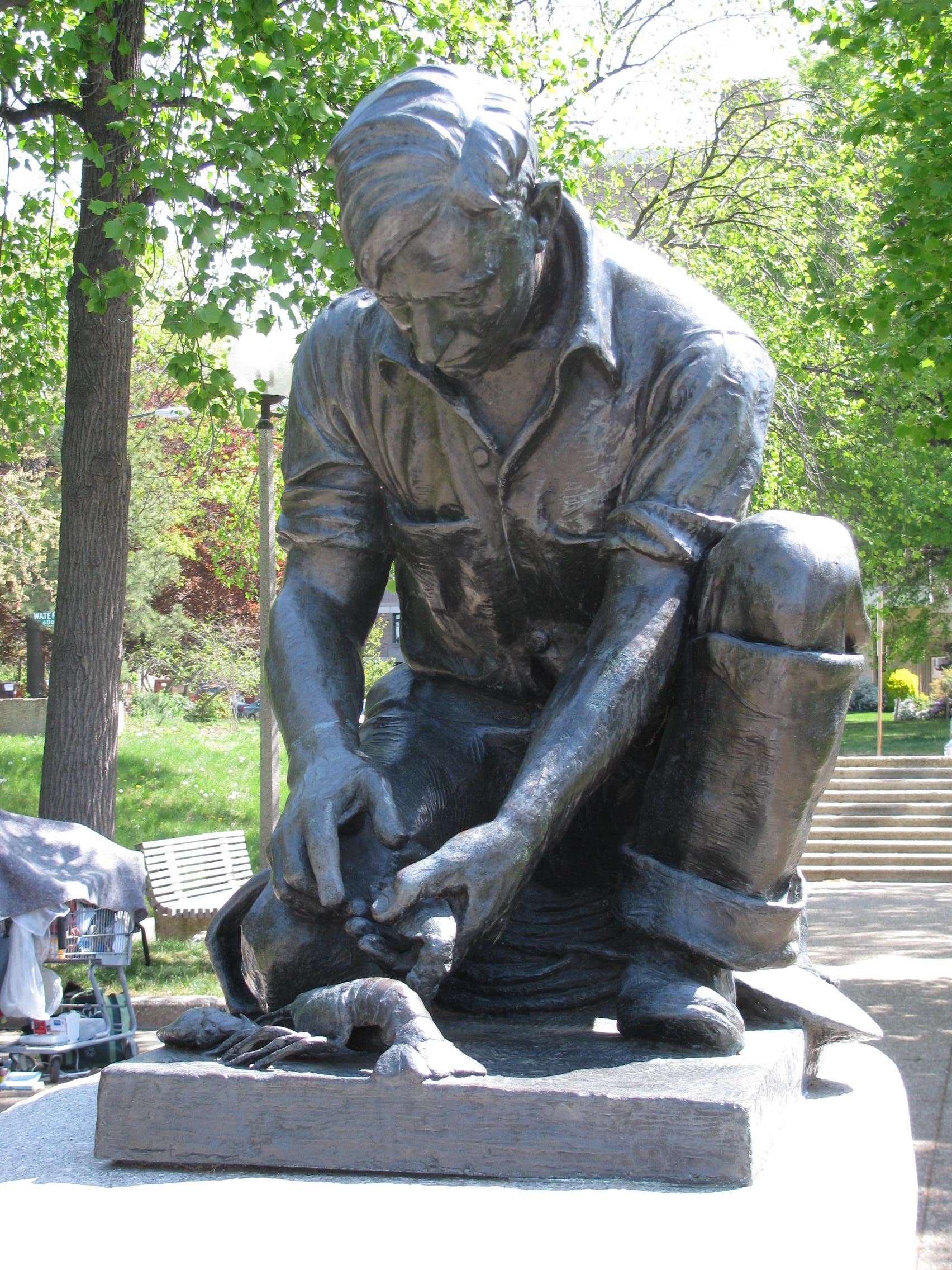 Artist: Kahill, Victor, 1895-1965, sculptor. Therrien, Norman, 1935- , caster. Boothbay Foundry, founder. Title: The Maine Lobsterman, (sculpture). Dates: 1939. Copyrighted 1939. Cast 1975. Relocated 1977. Dedicated July 22, 1977.